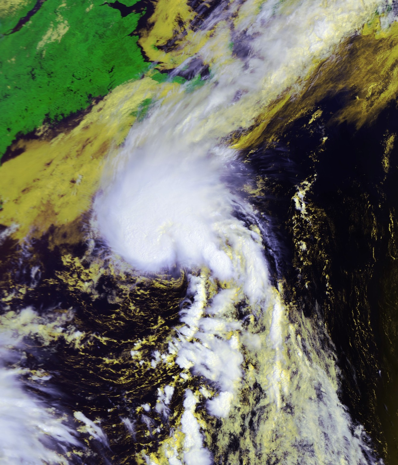 Tropical Storm Chantal on July 31 at approximately 1328 UTC. This image was produced from data from MetOp-2/A, provided by NOAA.